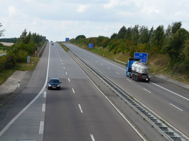 Grevenbroich A540 (Grevenbroich A540 (motorway))